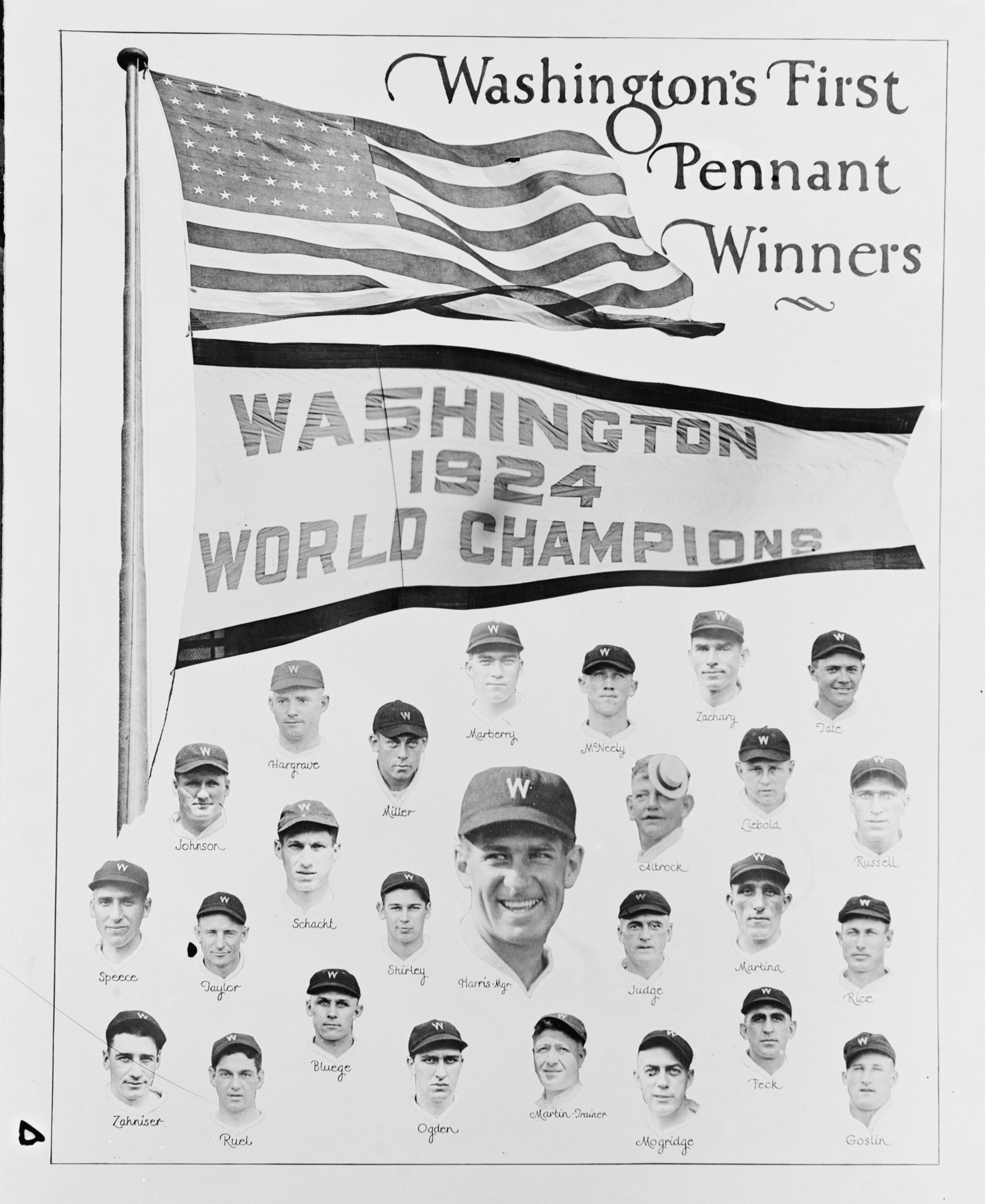 Title: 1st Pennant winners Abstract/medium: 1 negative : glass ; 4 x 5 in. or smaller